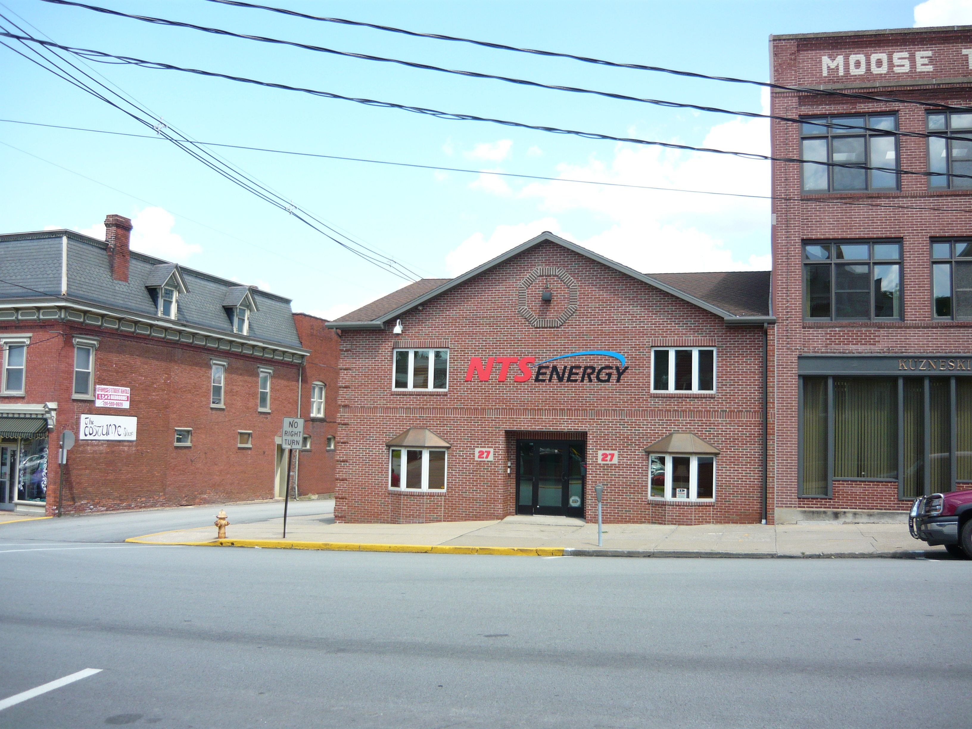 NTS Energy Building, built on the site of the demolished 1890s Graff's Market — 27 North 6th Street, Borough of Indiana, Indiana County, Pennsylvania.